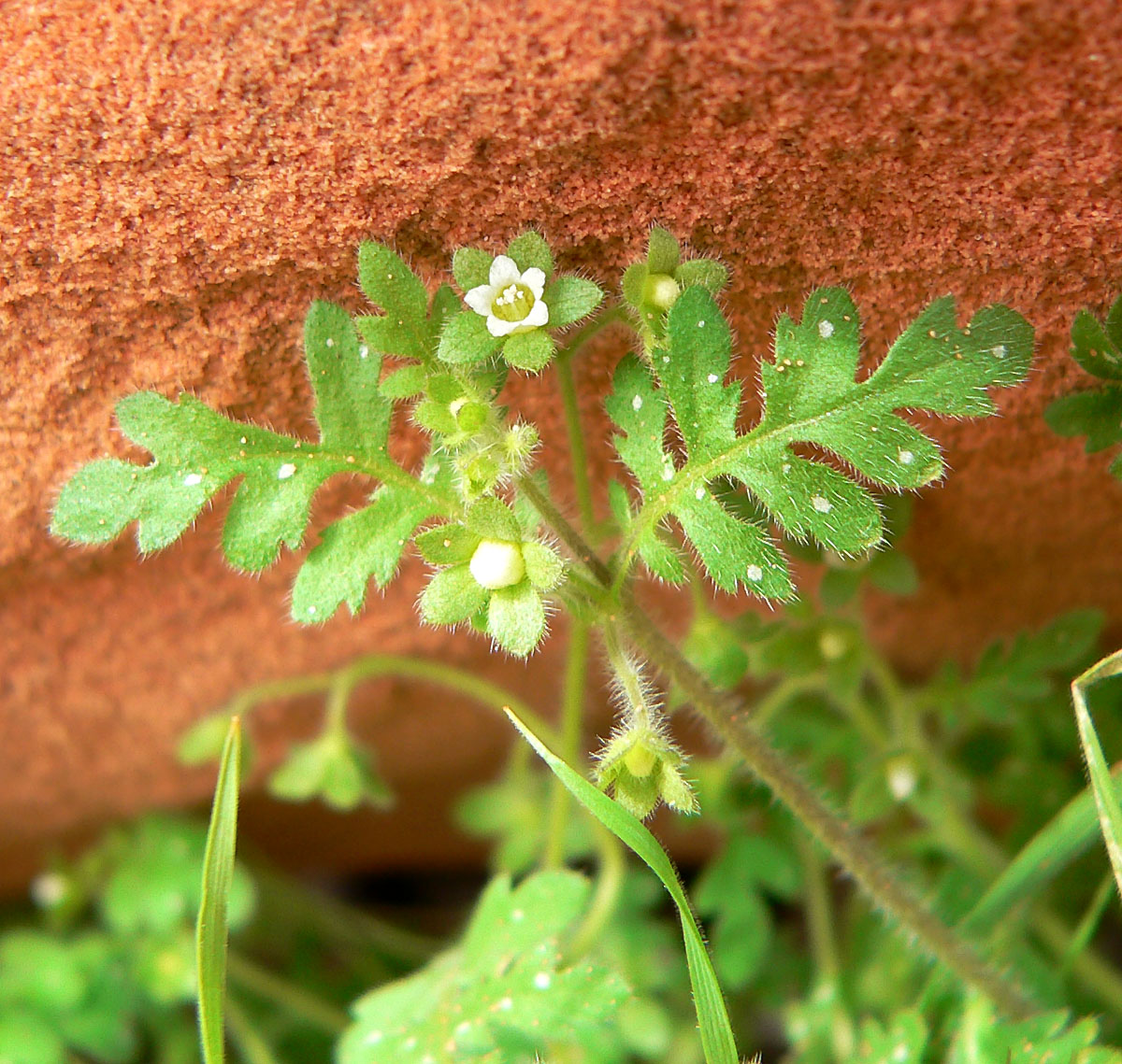 Eucrypta chrysanthemifolia var. bipinnatifida in Calico Basin, west of Las Vegas, Nevada